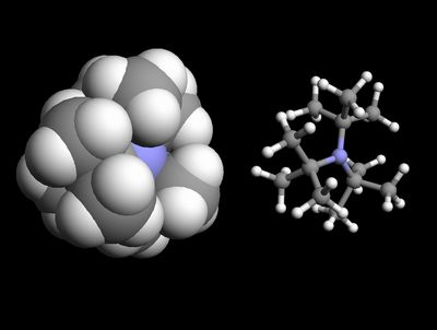 model of tri(terbutyl)amine